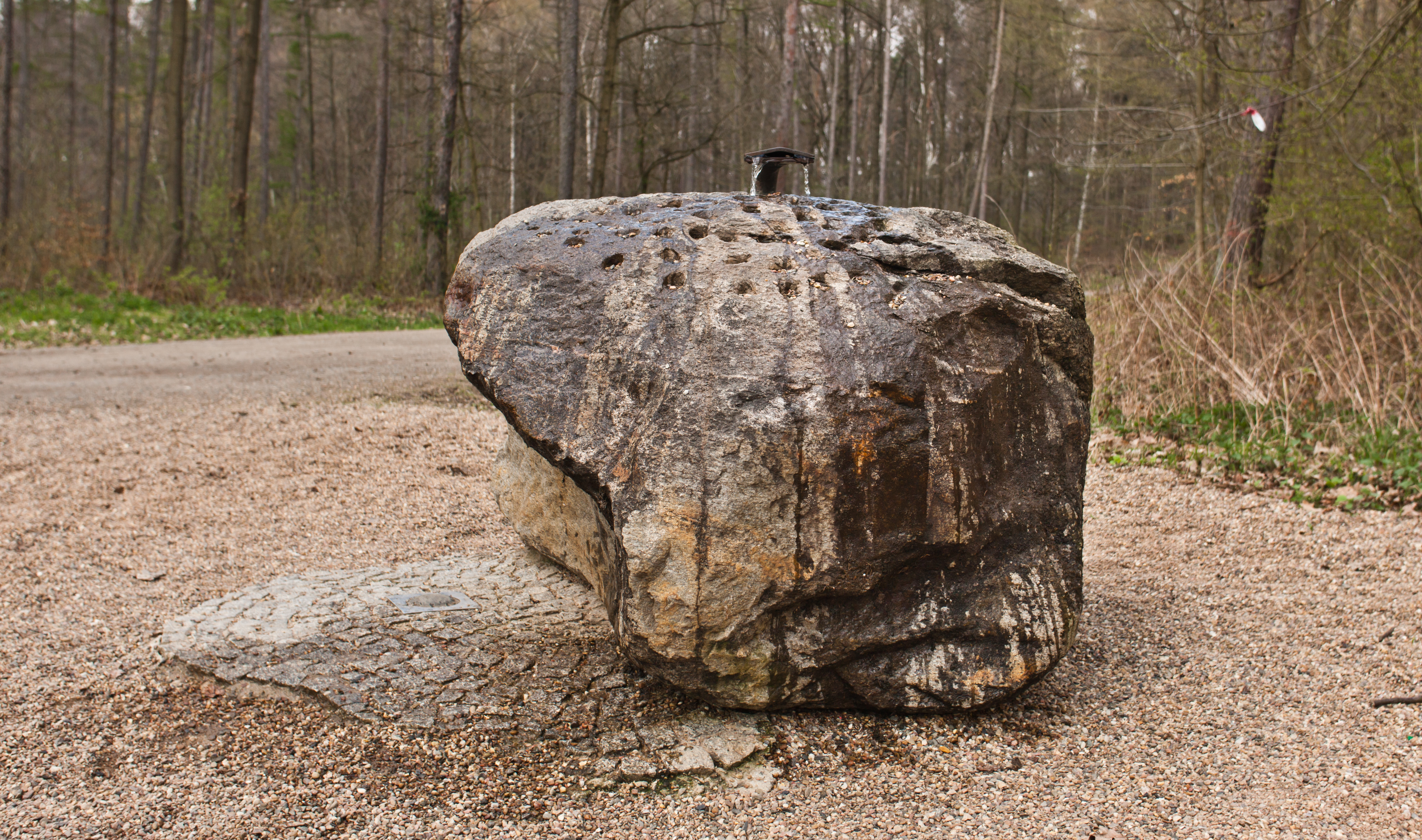 Schälchensteinbrunnen ("stone-bowl fountain"), a fountain incorporating a replica of a nearby stone used in Neolithic rituals that features many bowl-like depressions, in Detmerode, Wolfsburg, Germany.